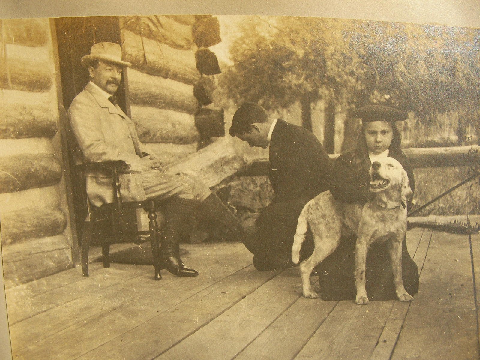 H.B.Hollins Sr. His man (Servant)giving a shoe shine & Miss Marion Hollins 1903 Tillman SC